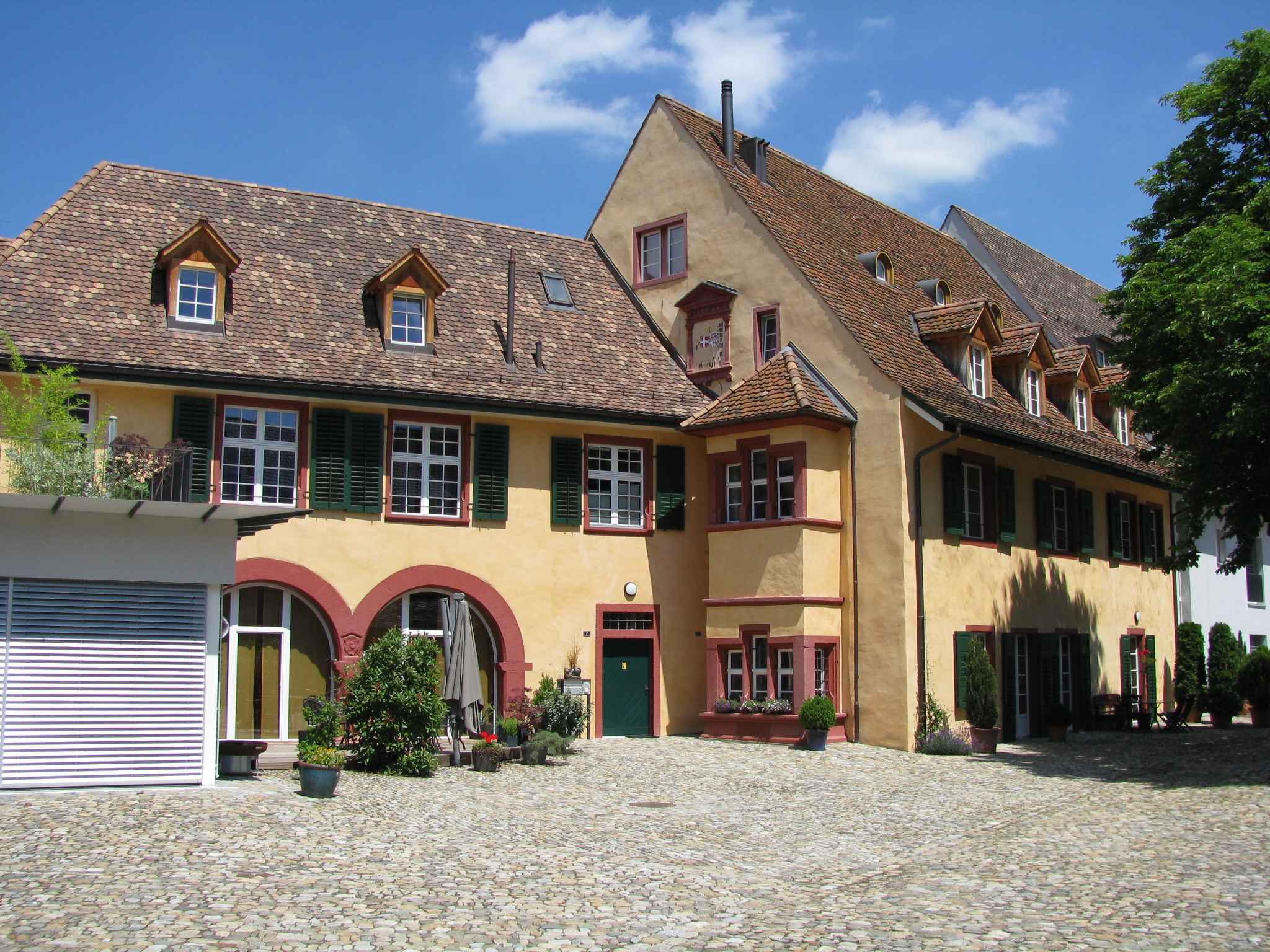 Johanniterkommende in Rheinfelden